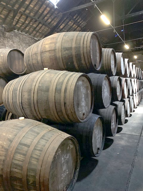 Barrels of port, Churchill's port, Porto, Portugal